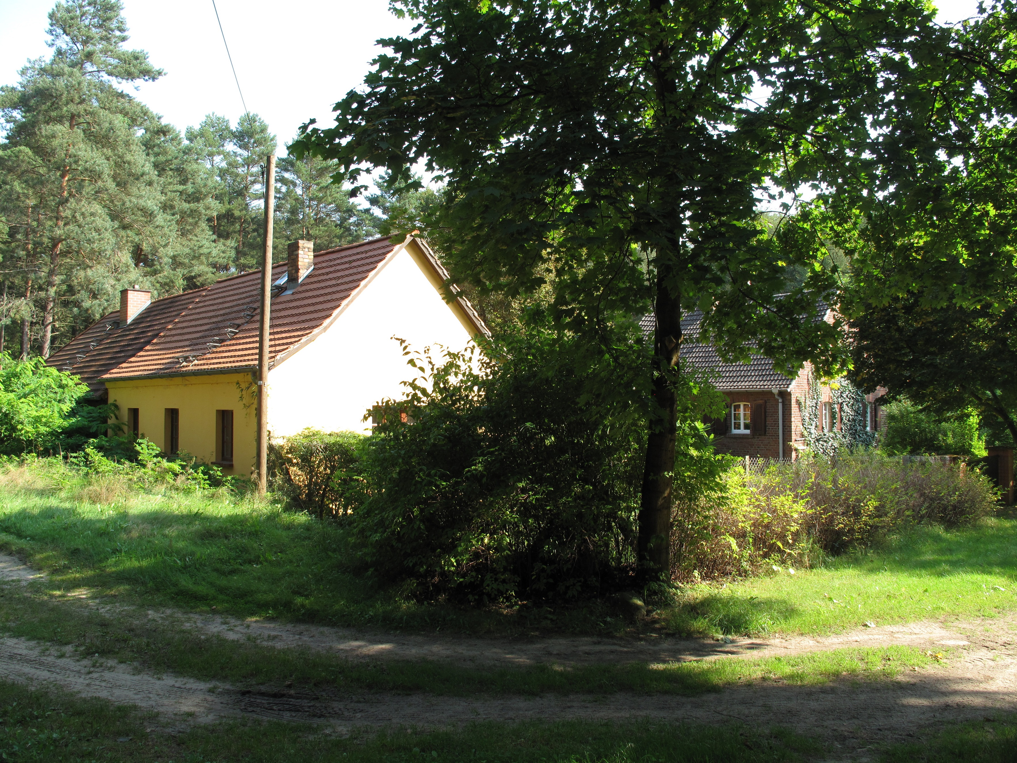 Area of the former Blabberschäferei (sheep farm) in Görsdorf. Görsdorf is a part of the municipality Tauche in the District Oder-Spree, Brandenburg, Germany. The area was purchased in 1968 by the author Günter de Bruyn.